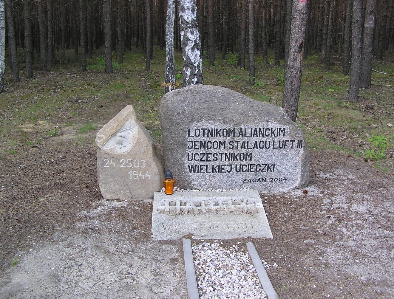 Stalag Luft III. Memorial stone marking the end of Harry Tunnel. The Polish language inscription reads: "To the Allied airmen, prisoners of STALAG LUFT III, participants in the GREAT ESCAPE. Żagań 2004".